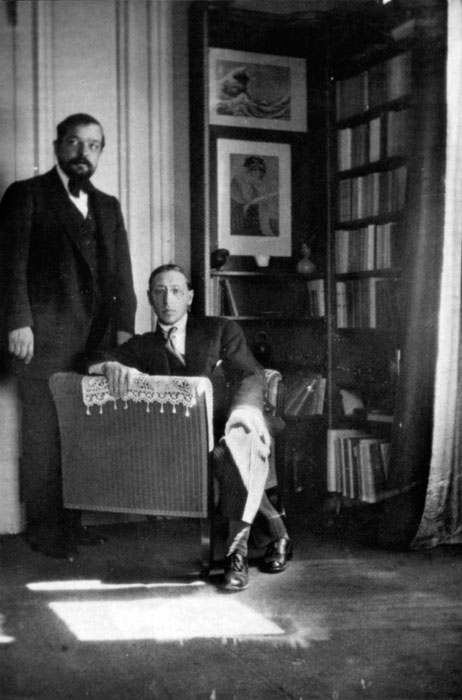 Photograph of Claude Debussy and Igor Stravinsky, taken by Erik Satie in 1910